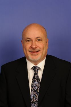 Official portrait of Congressman Mark Pocan (D-WI).